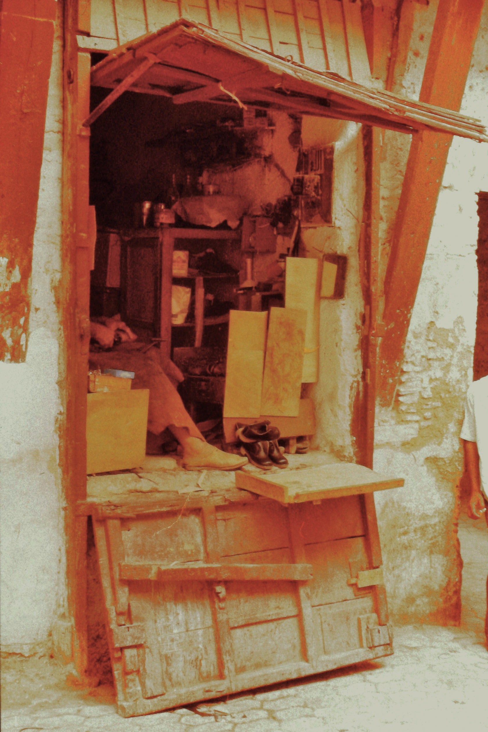 Moroccan shoemaer's shop